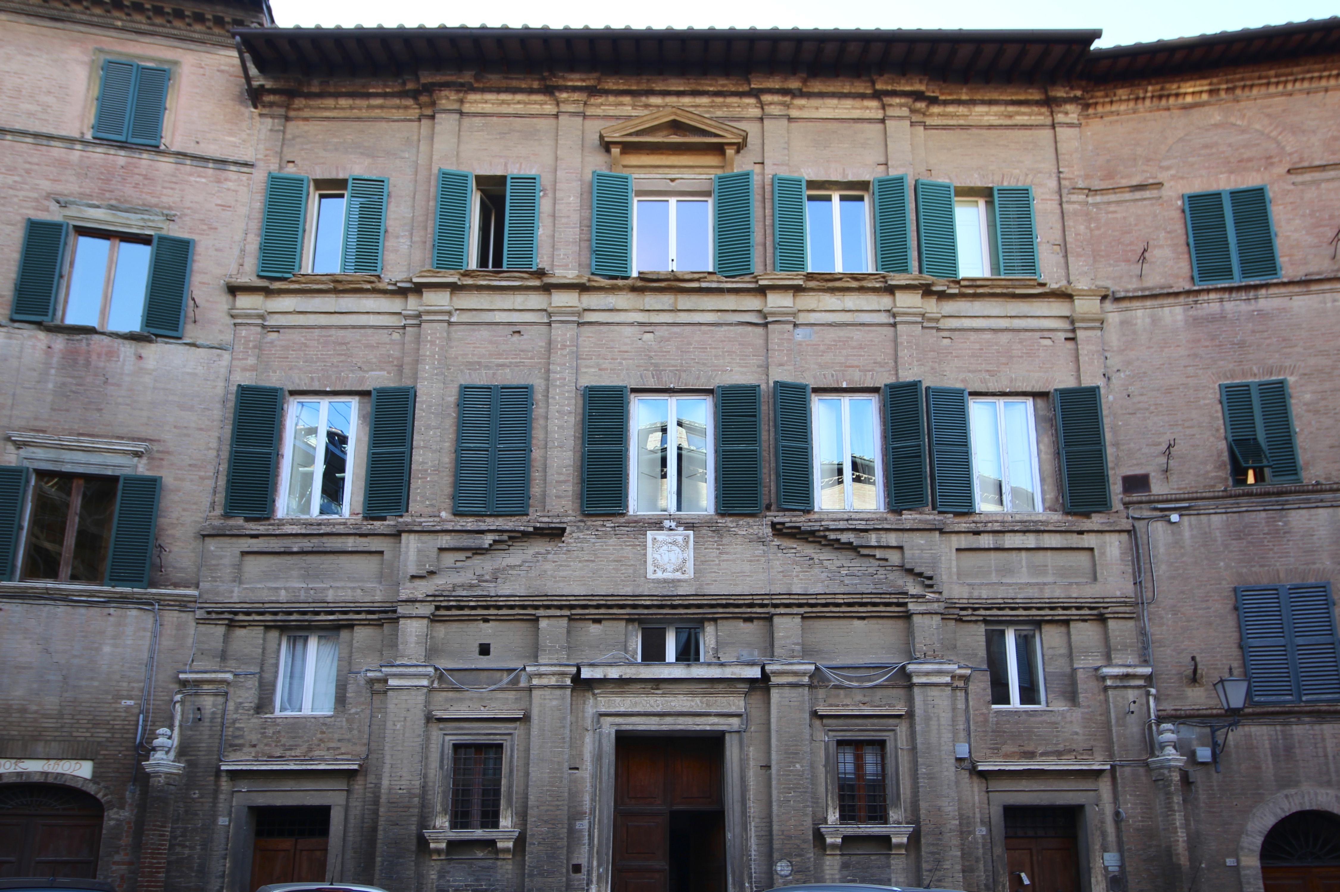 Palace Palazzo Fineschi Sergardi, Pian dei Mantellini, inside the walls of Siena, Tuscany, Italy